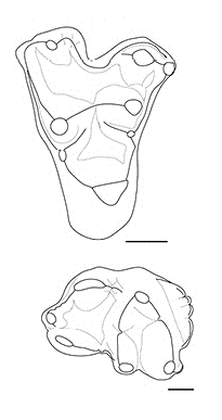 Didelphodon upper and lower molars. Scale bars equal 1 mm